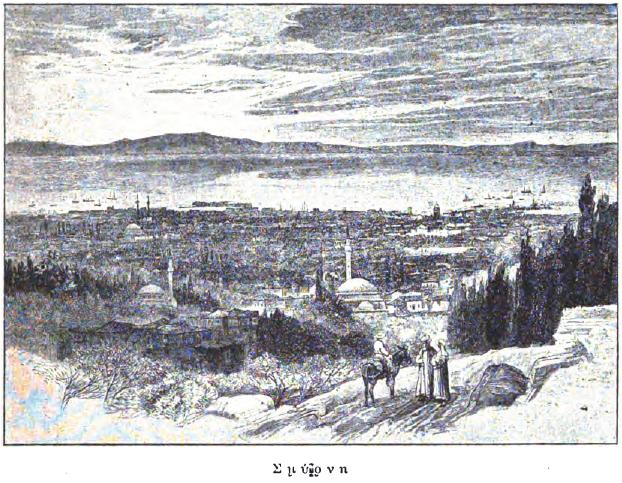 Hestia (1876) Author: Diomedes, Paulos Subject: Greek literature, Modern; Greek periodicals Publisher: [Athēnēsi : s.n. Year: 1894 Possible copyright status: NOT_IN_COPYRIGHT Language: Greek Digitizing sponsor: Google Book from the collections of: Harvard University Collection: americana]